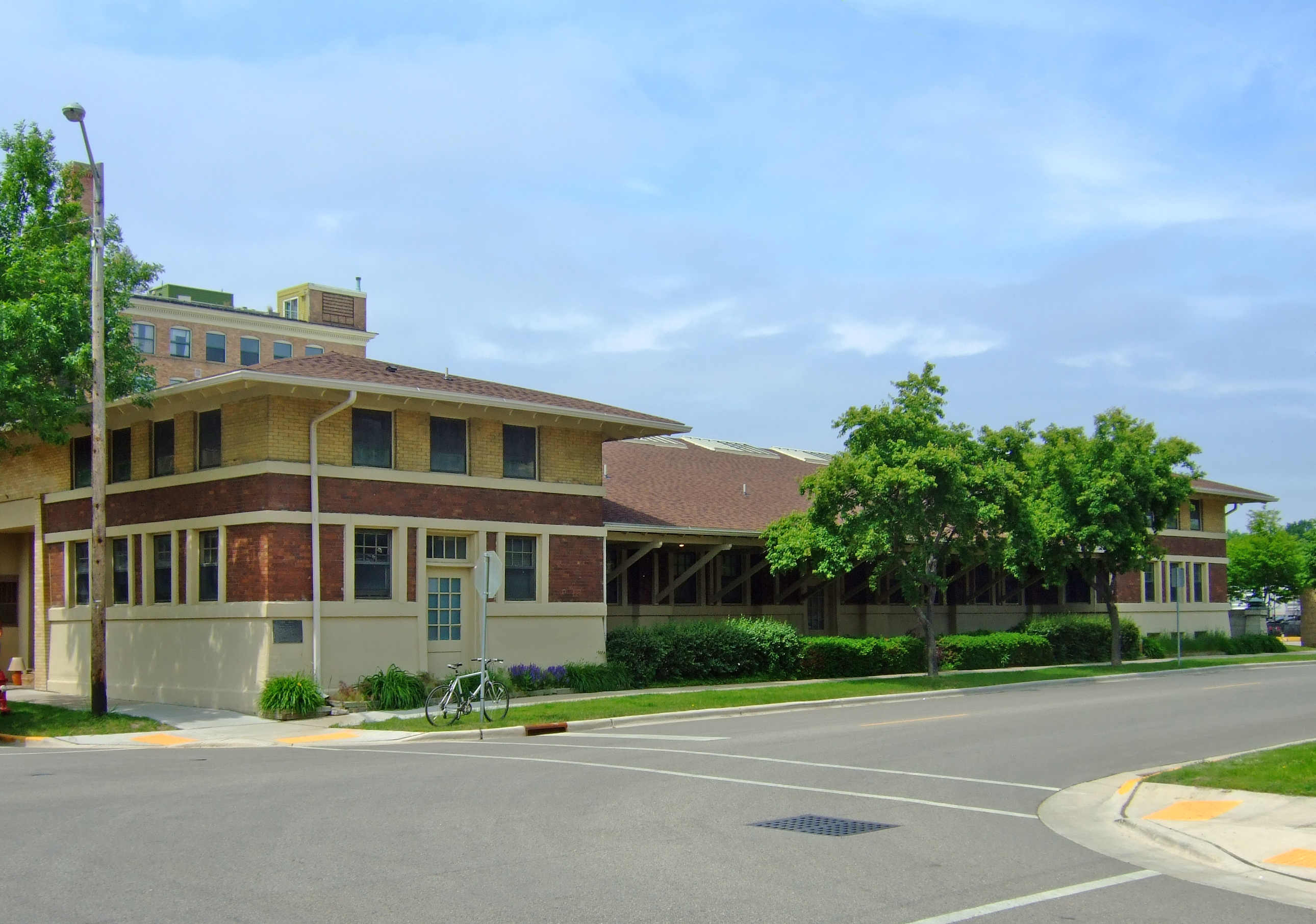 The old City Market (1909) reflects the active civic improvement work in Madison, Wisconsin, at the turn of the century. Like other public projects, the market was intended to enhance the advantages of city life. The building design by Madison architect Robert L. Wright is a unique example of the Prairie School style. Set out on an I-plan, its horizontality is emphasized by wide roof overhangs and by cement stringcourses through bichrome brick walls. It was added to the National Register of Historic Places in 1978.